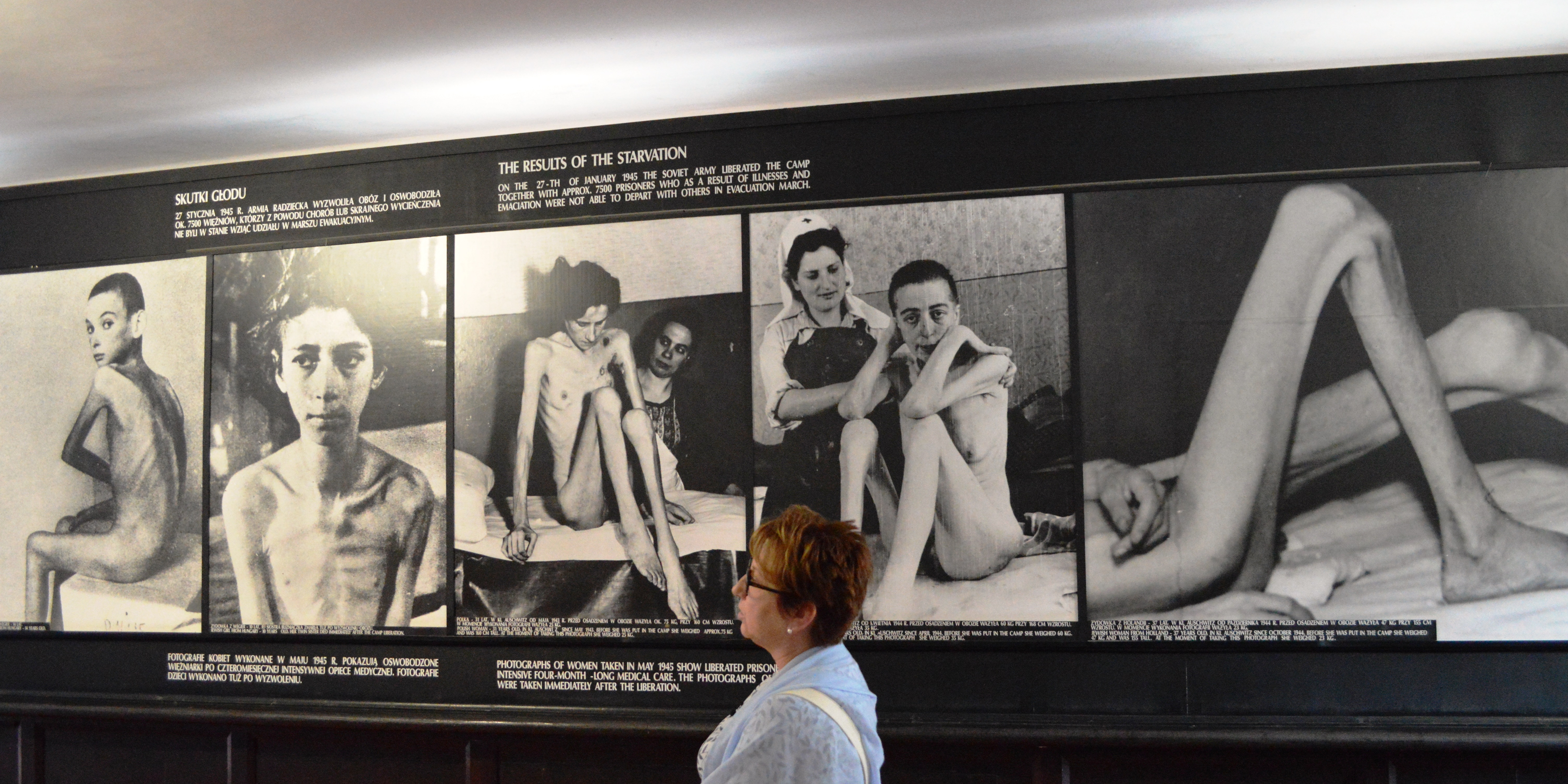 Auschwitz concentration camp was a network of concentration and extermination camps built and operated by the Third Reich in Polish areas annexed by Nazi Germany during World War II. It was the largest of the German concentration camps, consisting of Auschwitz I (the Stammlager or base camp); Auschwitz II–Birkenau (the Vernichtungslager or extermination camp); Auschwitz III–Monowitz, also known as Buna–Monowitz (a labor camp); and 45 satellite camps. Auschwitz had for a long time been a German name for Oświęcim, the town by and around which the camps were located; the name "Auschwitz" was made the official name again by the Germans after they invaded Poland in September 1939. One of those who died at Auschwitz was a non-Jewish Polish woman, Anna Grodyńska, born 8 October 1891. On 30 October 1941 Anna (née Rutowska, widow of Major Jan Kanty Grodyński brother of Jerzy Grodyński (pl) who was one of the founders of the Polish Scout movement and active in Sokół and Eleusis (pl)) was arrested at her apartment in Kraków at 1 Batory street, where apparently a gun and papers linking her to the ‘Polish Resistance’ were found (she was associated with ZWZ (pl) and PPS-WRN (pl) ‘Freedom Equality Independence’), along with her younger sister Zofia Żyborską and daughter Magdalena. After imprisonment in the detention centre on Montelupich street Anna and her sister were transported to Auschwitz (#6816) on 27 April 1942 and on 30 August Anna was executed (probably at the notorious wall between Blocks 10 & 11 following months of “brutal interrogation”). Zofia died in Auschwitz one year later on 23 August 1943 but Magdalena, born 25 May 1926 and who bravely endured interrogation at Gestapo Headquarters in Kraków at 2 Pomorska street, survived the war and pursued a successful career as a dramatic actress in the theatre before being laid to rest on 19 October 1984. The Scotch Mist Gallery contains many photographs of historic buildings, monuments and memorials of Poland.